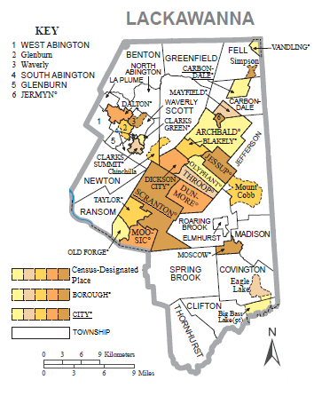 A map of Lackawanna County, Pennsylvania, showing the borders of the townships, boroughs, cities, and census-designated places contained within it, edited from the original 2010 census map. Original image included Wayne, Susquehanna, and Wyoming Counties, and excluded the municipal key (which came from page 2). The north arrow, key to numbered municipalities, name of county, and the scale have been moved.